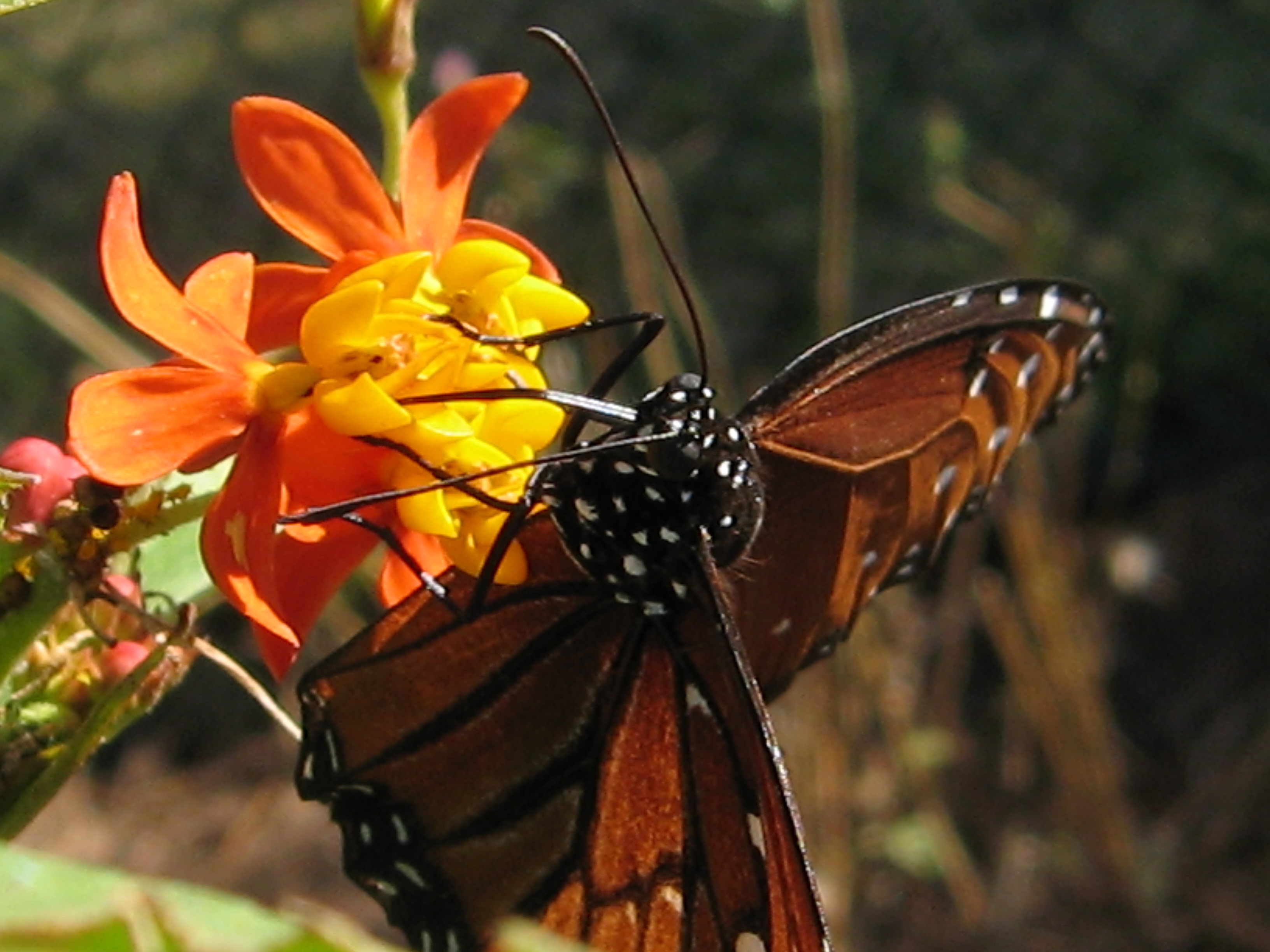 A Queen butterfly (Danaus gilippus) at a Milkweed plant. Picture taken at Manatee Park in Ft Myers.